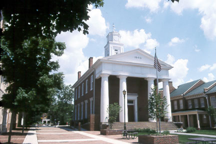 Front of the Frederick County Courthouse, located at 20 N. Loudon Street in Winchester, Virginia, United States. Built in 1840, it is listed on the National Register of Historic Places.